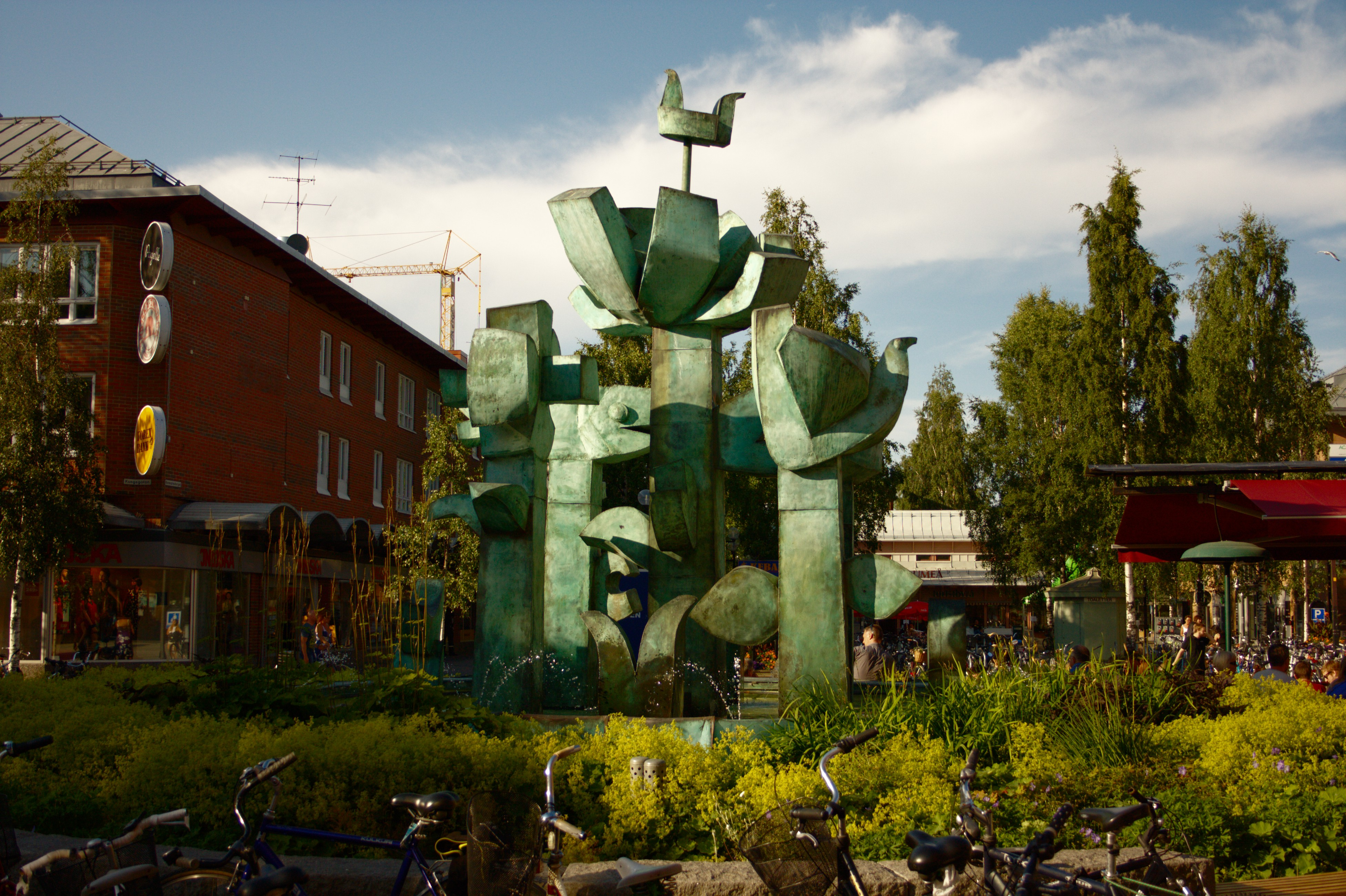 An approximately 7 meters high copper fountain by Stig Lindberg 1976 at Renmarkstorget in Umeå.